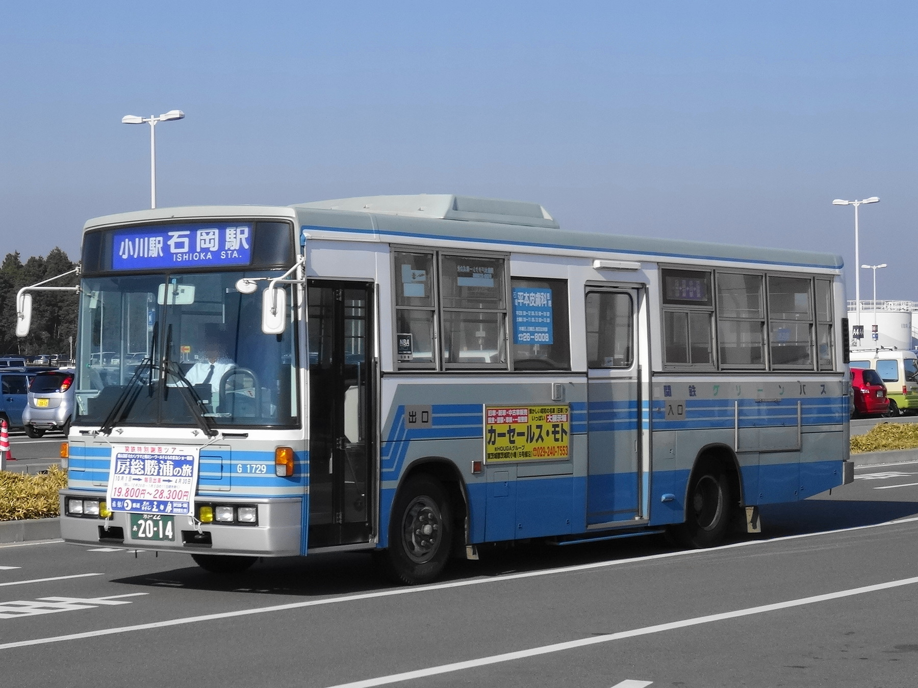 Ibaraki Airport to Ishioka Station